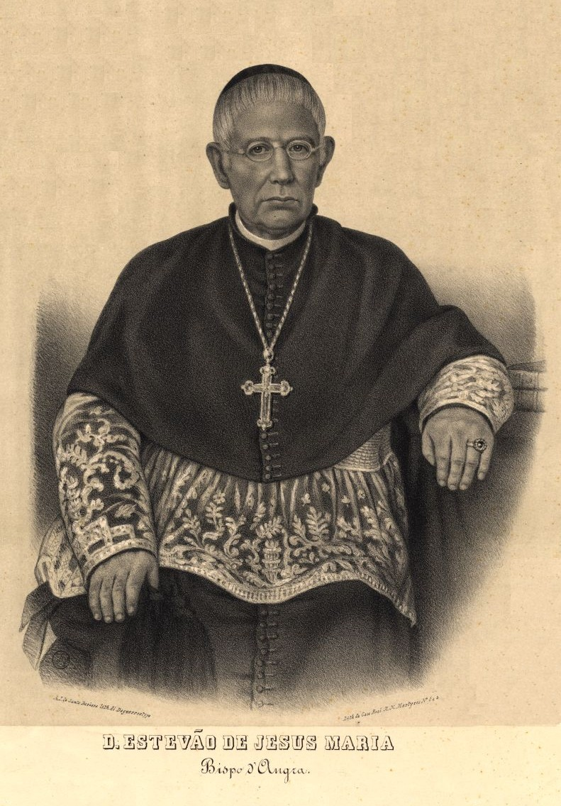 Bishop Estêvam de Jesus Maria, of the diocesis of Angra, Azores.